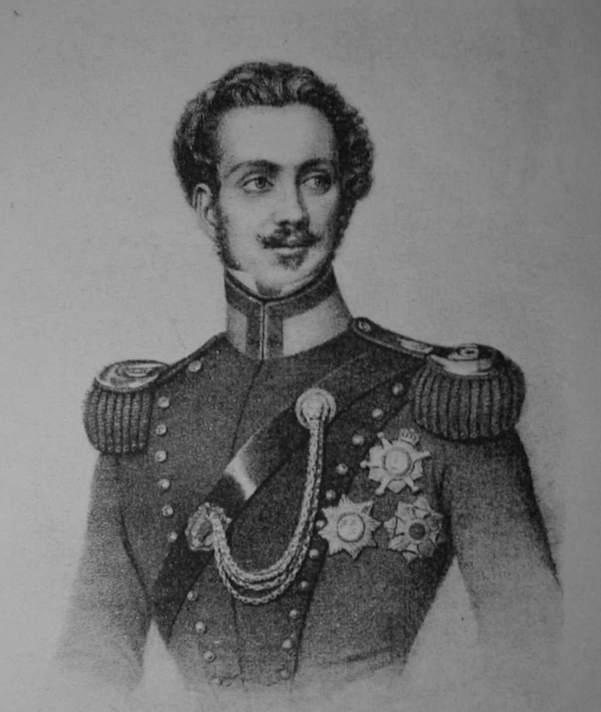 Auguste Charles de Beauharnais (1810-1835), 2nd Duke of Leuchtenberg, son of Eugène de Beauharnais and Princess Augusta of Bavaria. From 1834-35 prince consort of Portugal, Duke of Santa Cruz, Husband of Queen Maria II of Portugal.